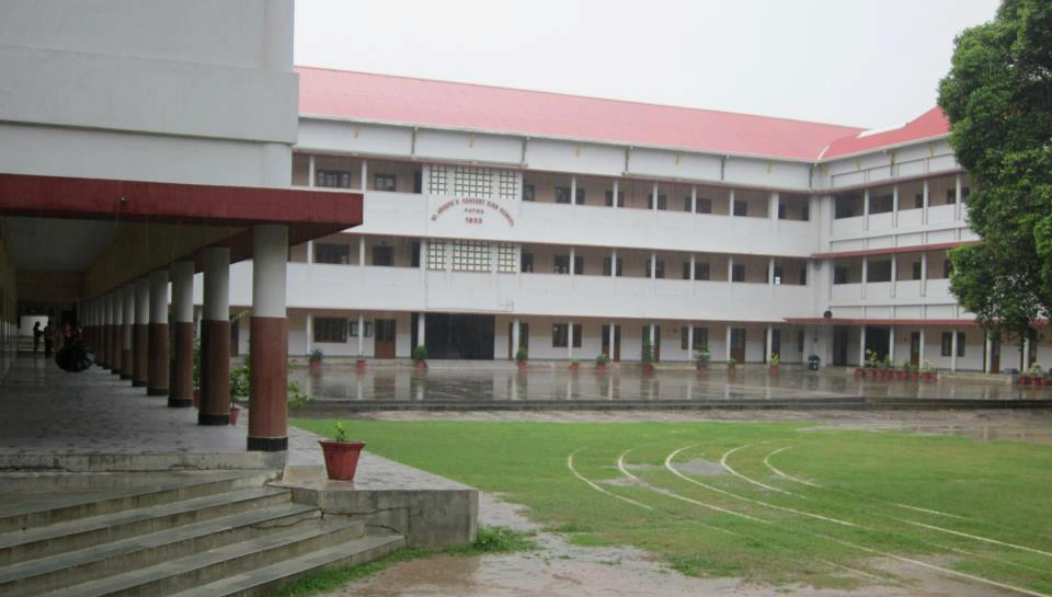 Main building of St. Joseph's Convent High School, Patna